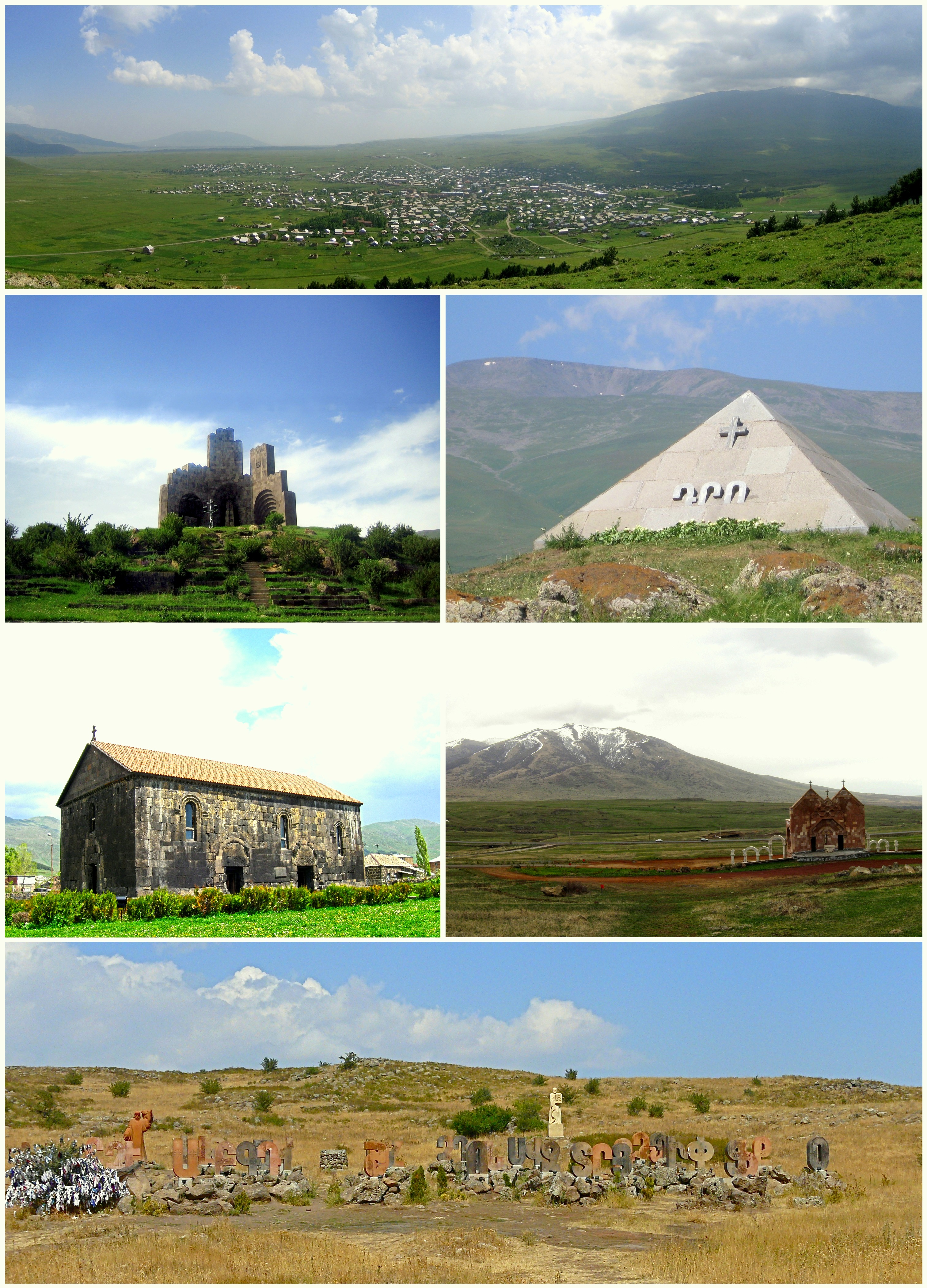 Aparan town collage.